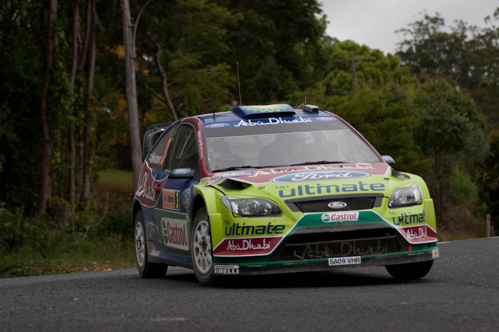 Mikko Hirvonen driving his Ford Focus RS WRC 09 at the 2009 Rally Australia.